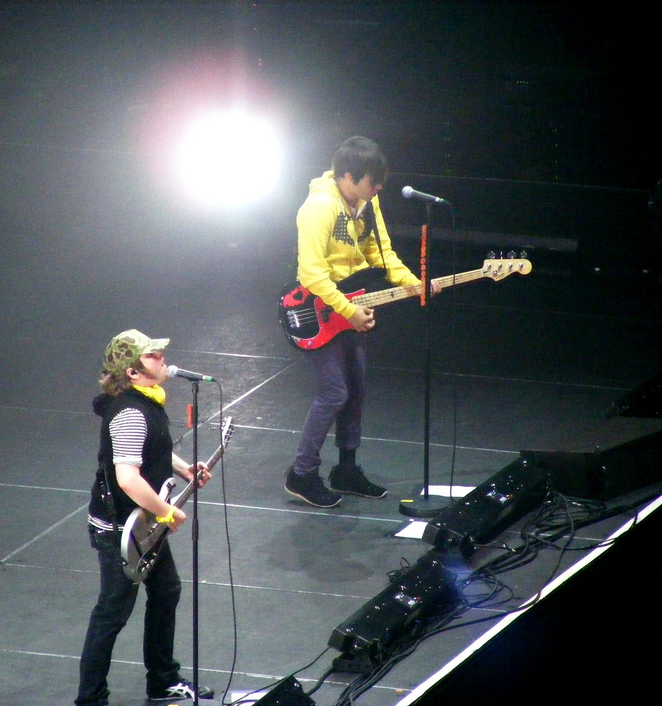 Patrick Stump and Pete Wentz of Fall Out Boy performing in the Wembley Arena in London on October 22, 2008.